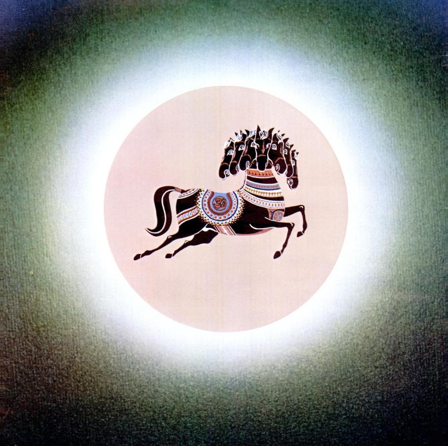 crop of File:Dark Horse Records ad.png